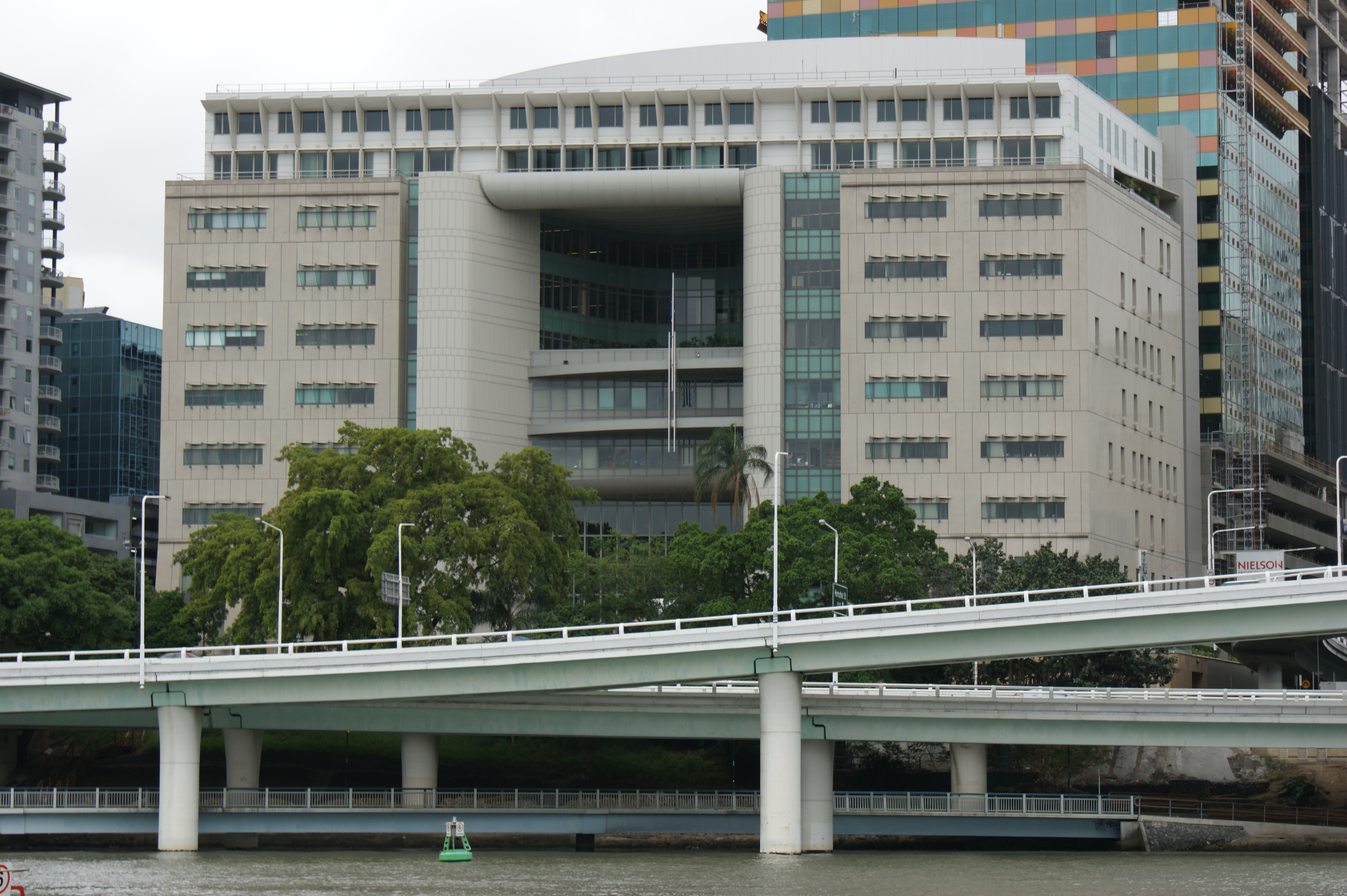 A view of the Harry Gibbs Commonwealth Law Courts Building in Brisbane, Australia from South Bank on the opposite side of the Brisbane River.